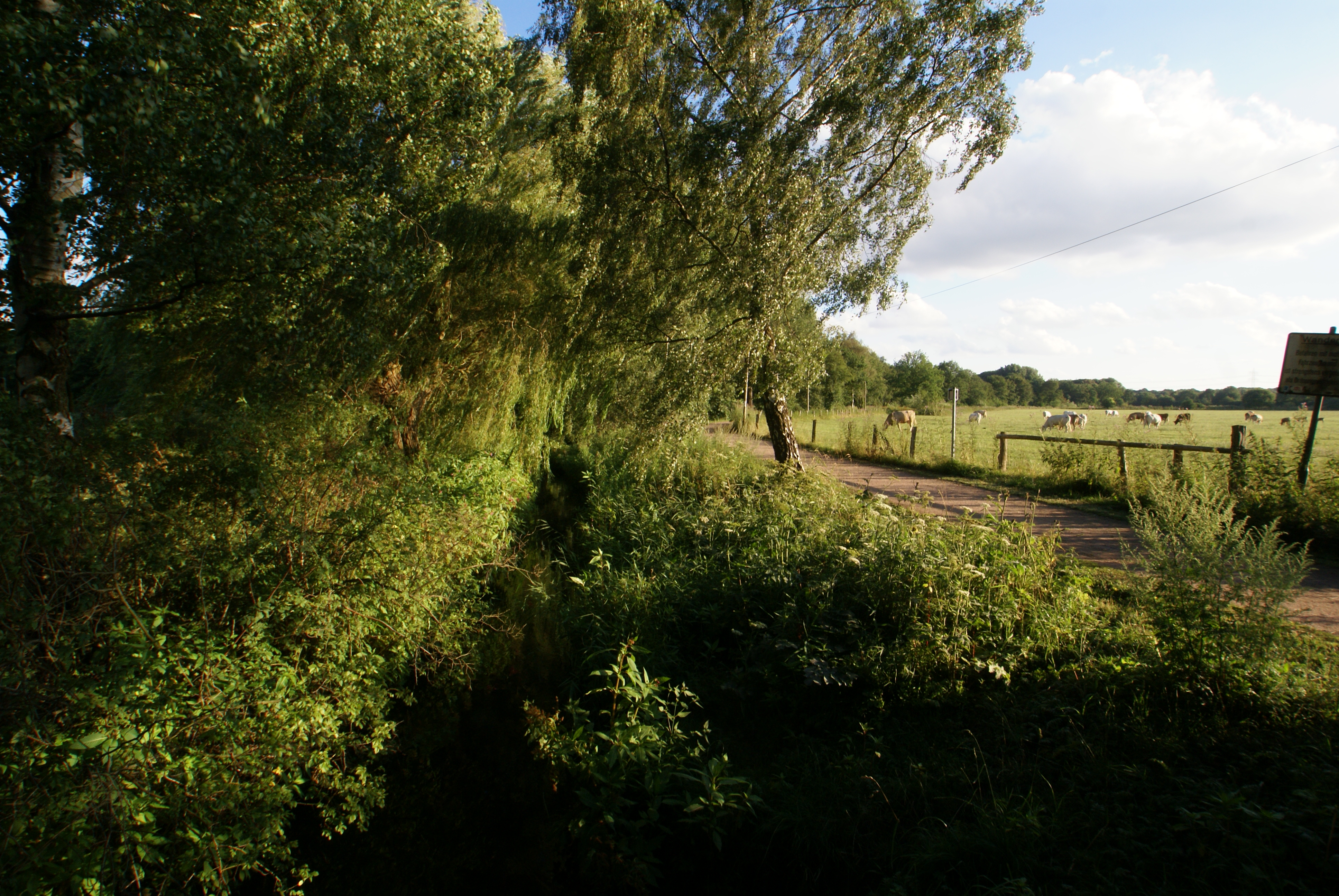 Kollau at Stellingen